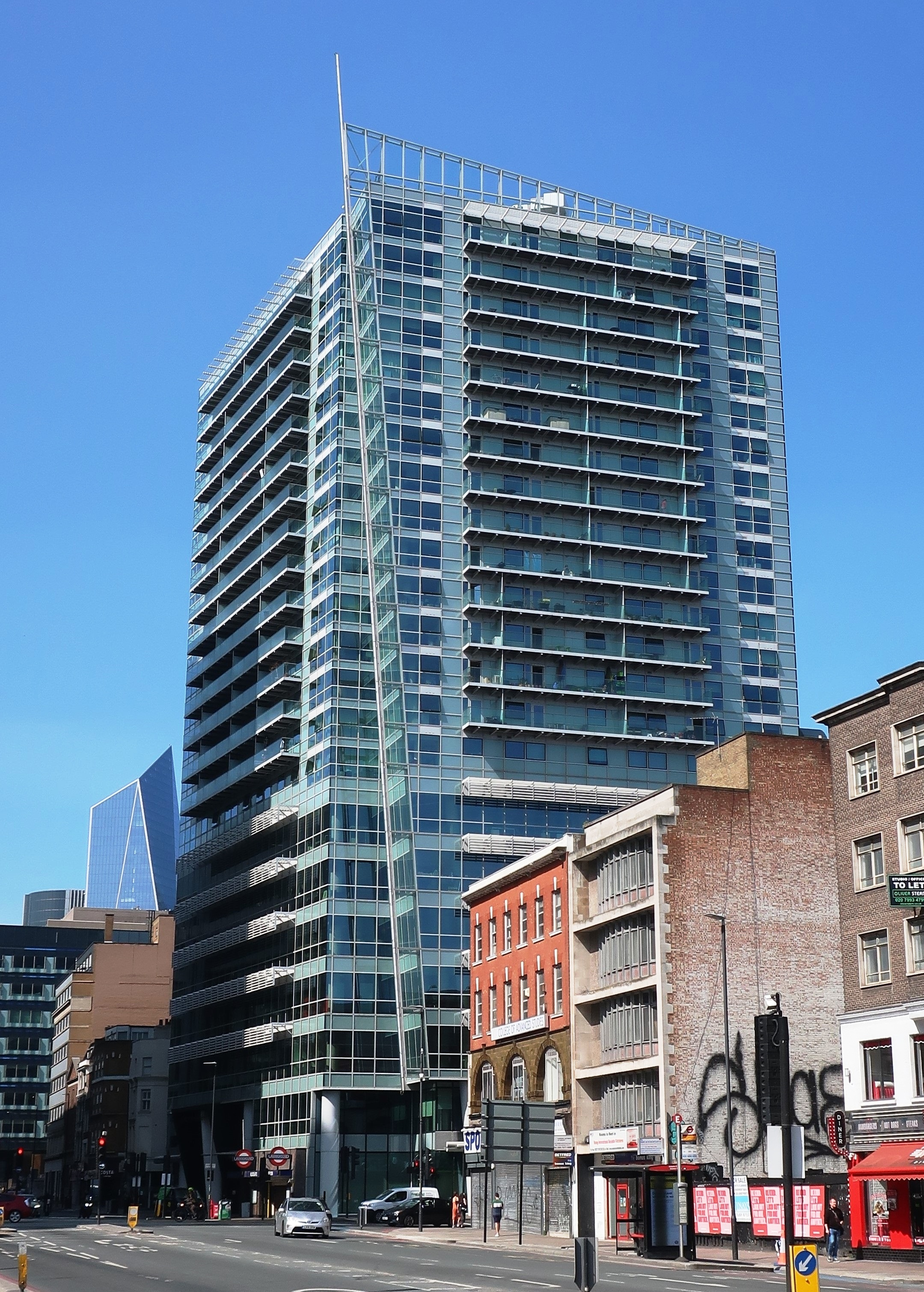 The Relay Building, formerly known as One Commercial Street: a 21-storey residential tower block at 114 Whitechapel High Street (junction with Commercial Street), London E1